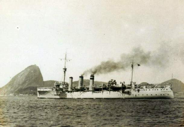 The Brazilian cruiser Rio Grande do Sul in Guanabara Bay.